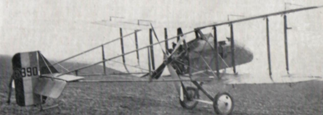 Royal Aircraft Factory F.E.8